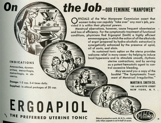 Advertisement for Ergoapiol from Martin H. Smith Co.